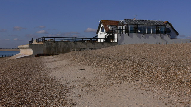 Inn on the Beach on Hayling Island